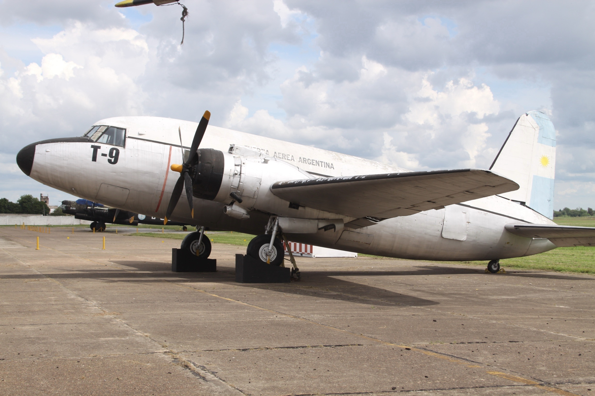 At Moron Museo Nactional De Aeronautica